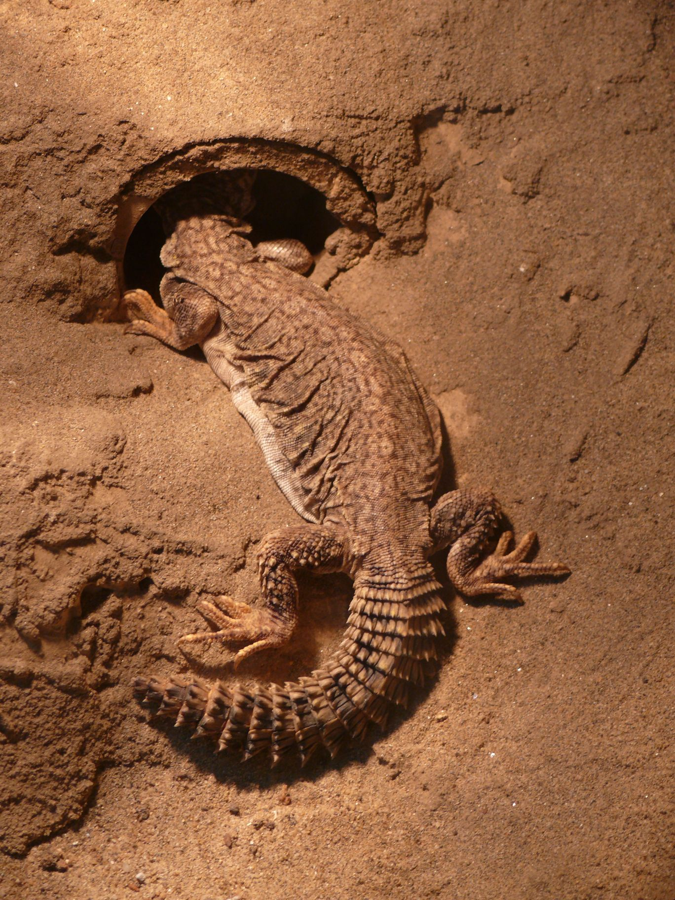 Uromastyx aegyptia in Shanghai Zoo (China).